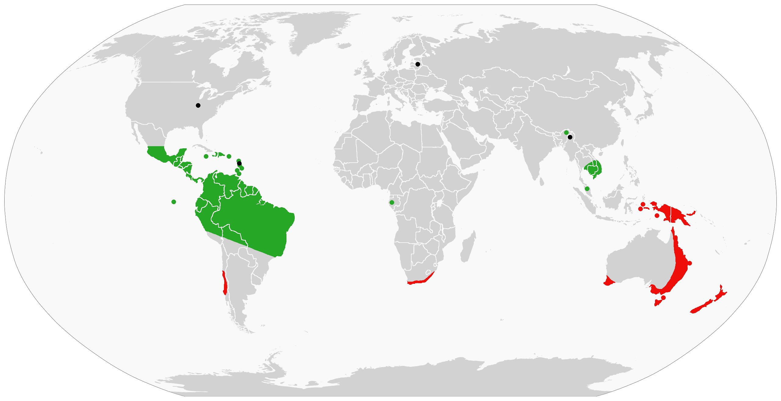 Global distribution of the Onychophora; extant Peripatidae (green), Peripatopsidae (red), and fossils (black). extant Peripatidae extant Peripatopsidae fossils